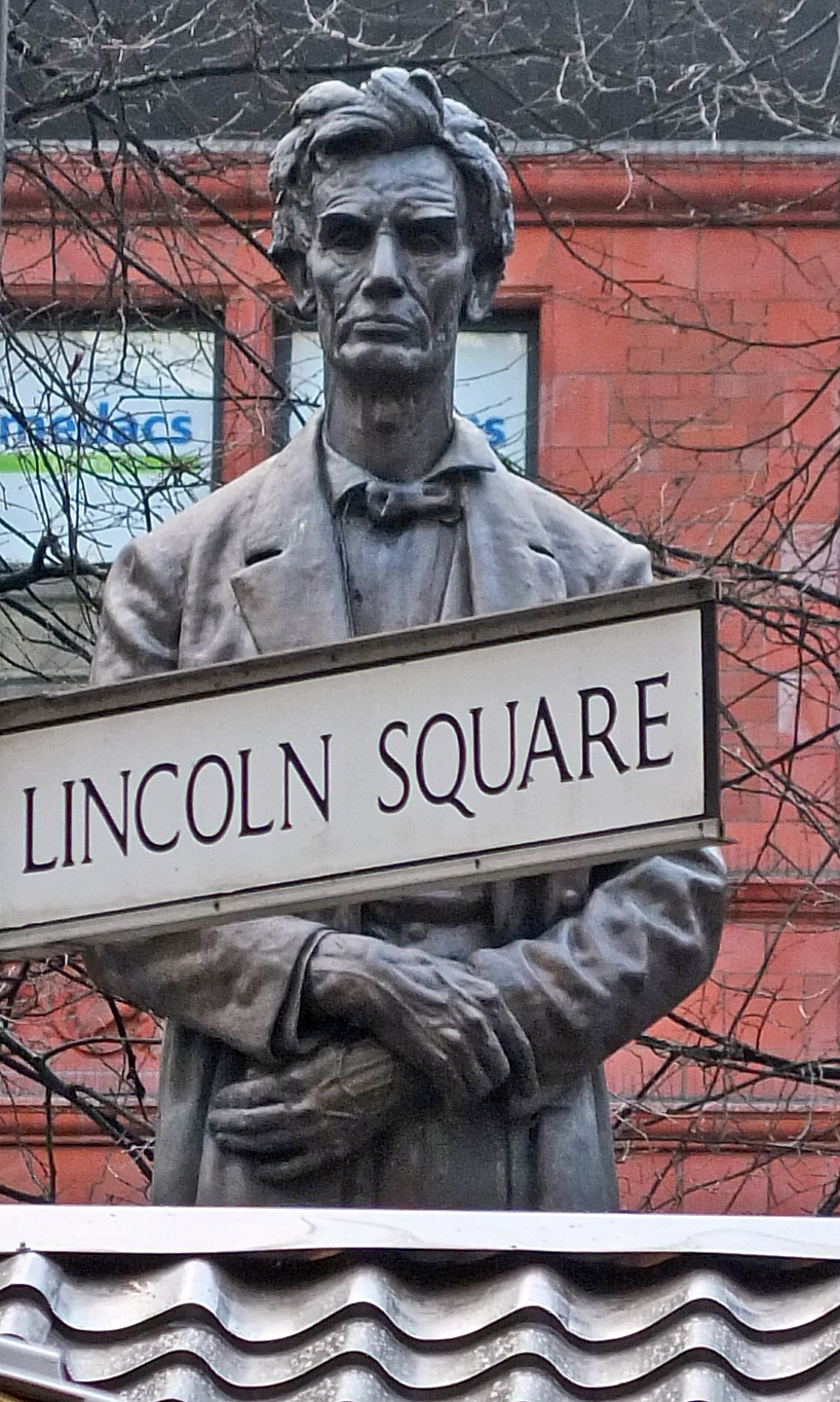 Statue of Abraham Lincoln, 1919, by George Grey Barnard, in Manchester.